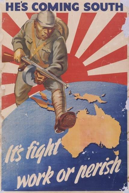 Australian War Memorial (AWM) catalog number ARTV09225 Sourced from: Copyright: The poster was made and published in 1942 by an unknown artist working for the Australian Government. As a result it is no longer under copyright. Higher resolution images may be ordered through the AWM (Source: email from the AWM to Nick Dowling 6 January 2006). AWM Caption: Propaganda poster referring to the threat of Japanese invasion. A Japanese soldier is stepping across the globe towards Australia with the Imperial Japanese flag behind him. He is armed with a submachine gun and is about to step on Australia The copyright has expired on this image. Higher resolution versions of this image may be ordered through the AWM Website at